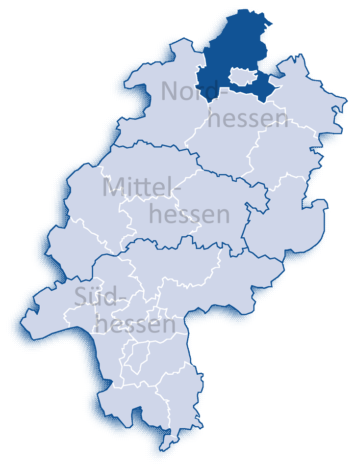 The map shows the district Kassel. A district in Hesse